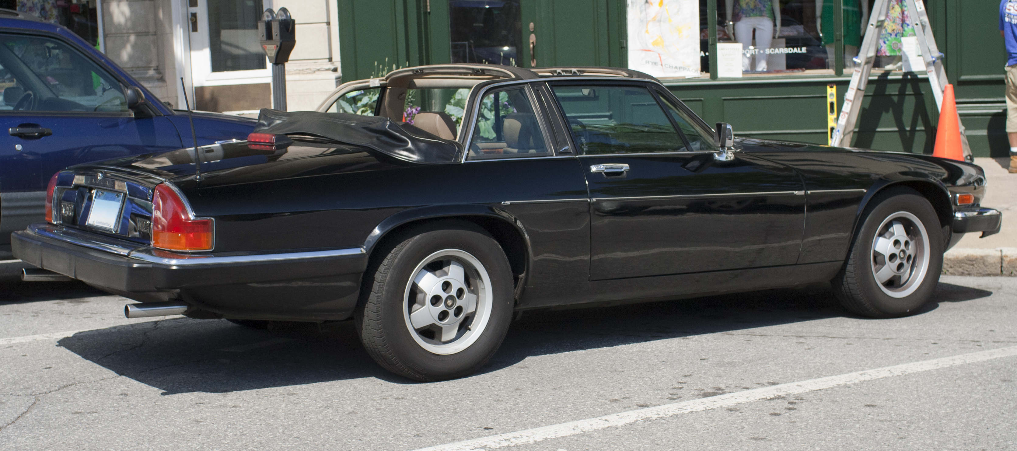 1986 Jaguar XJ-SC (US market).